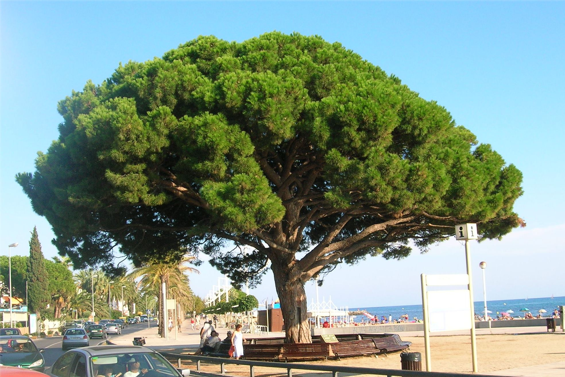 Stone Pine Pinus pinea (Pí Rodó in Catalan), declared tree of commercial interest, in Cambrils, Tarragona.